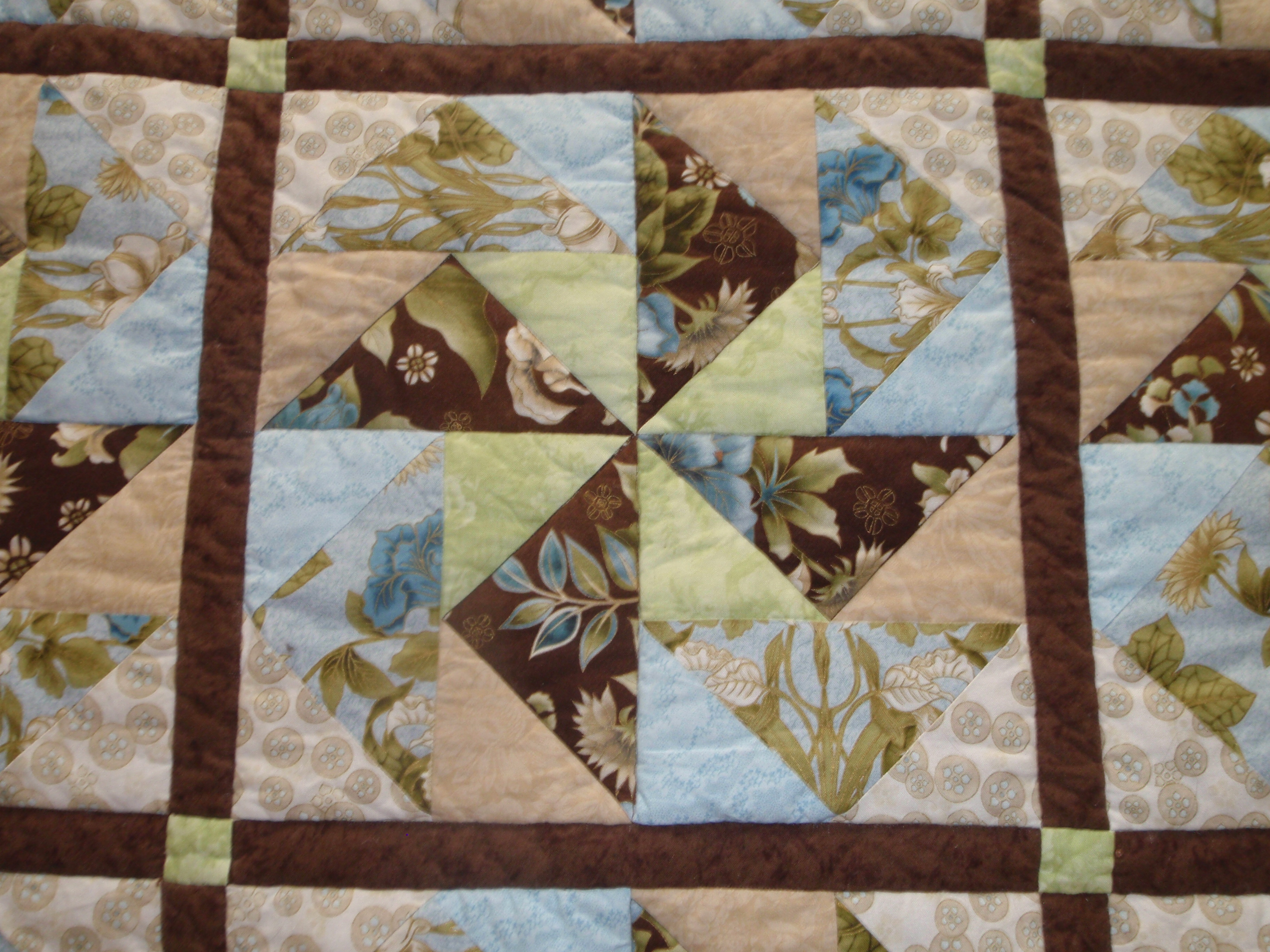 Created for use on wiki page on quilting - The Basics of Quilt Assembly